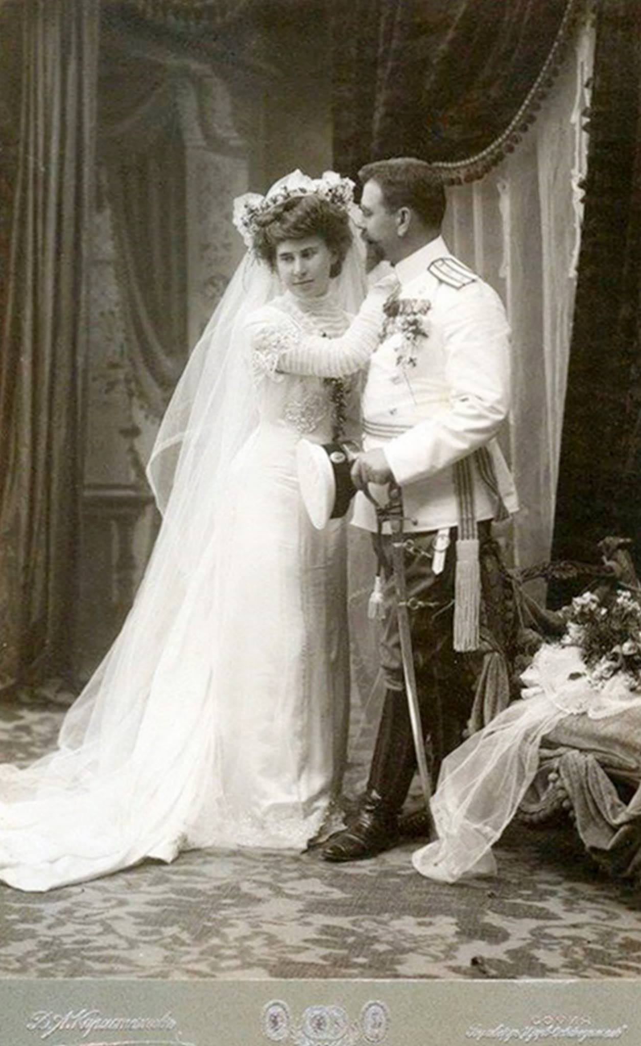 Marriage of Konstantin Zhostov and Lyudmila Mollova